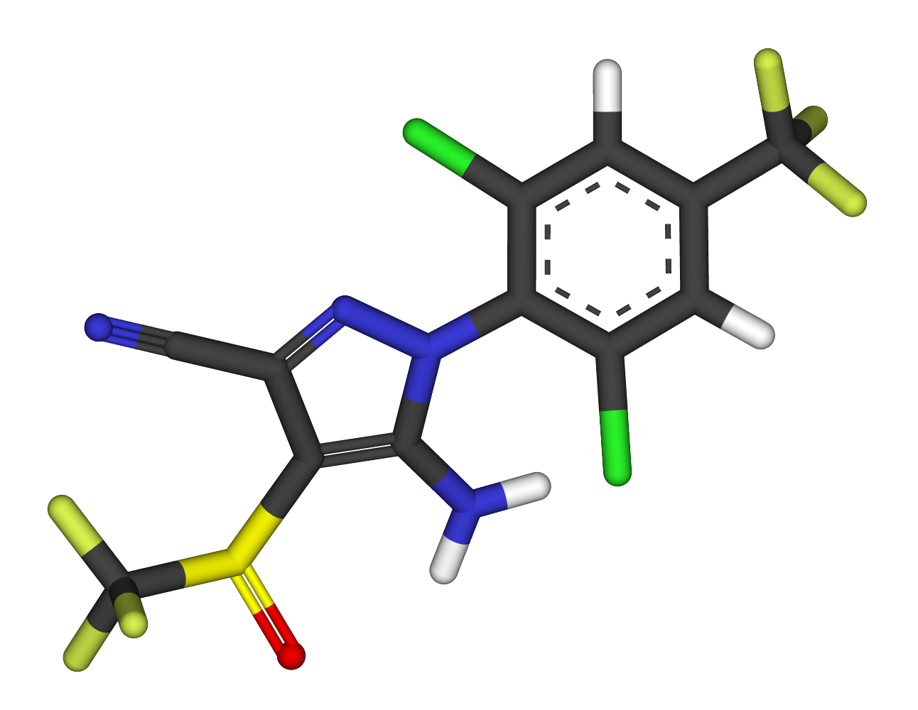 Fipronil